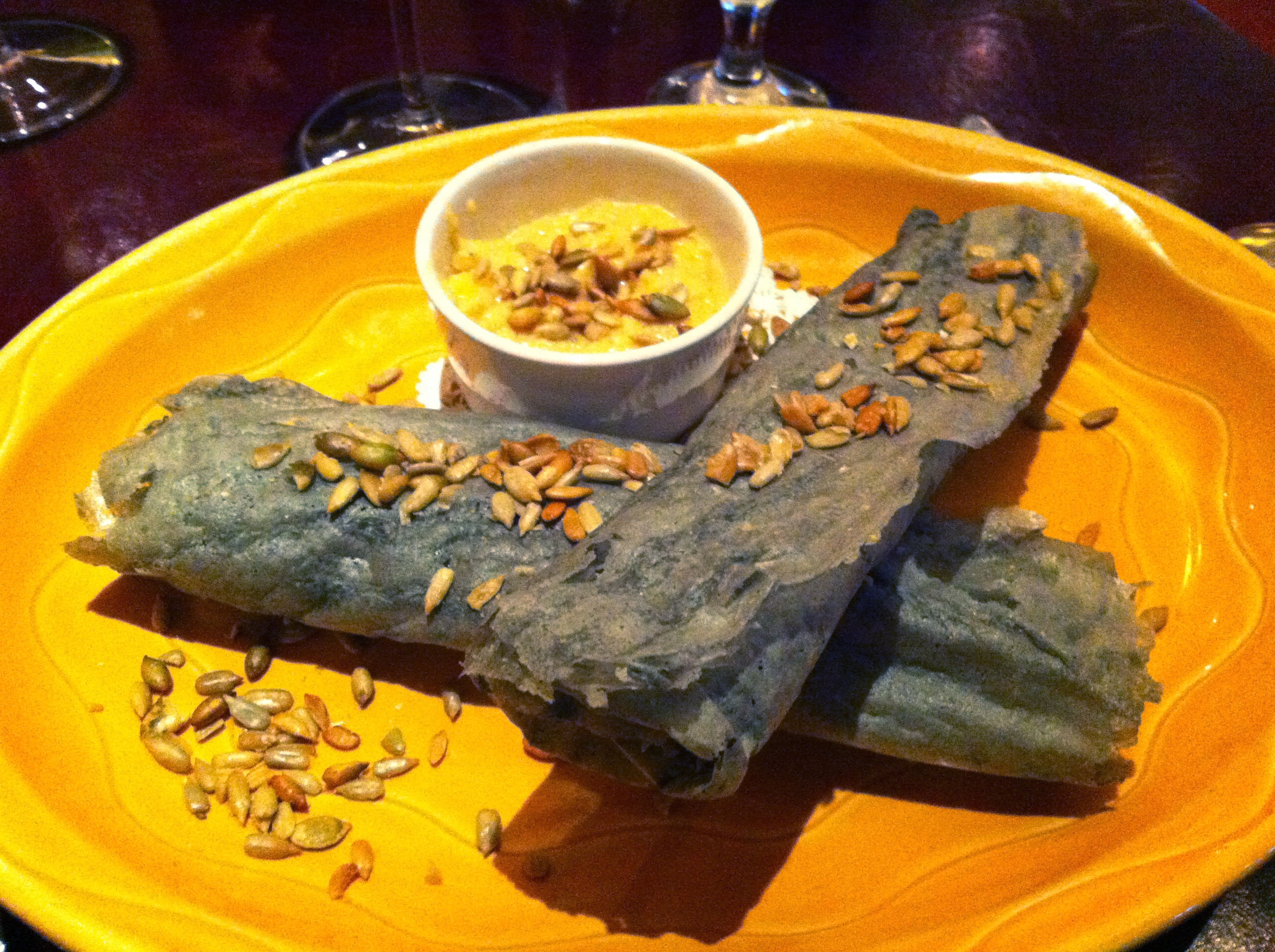 Delicious Hopi made appetizer at Turquoise Room, La Posada